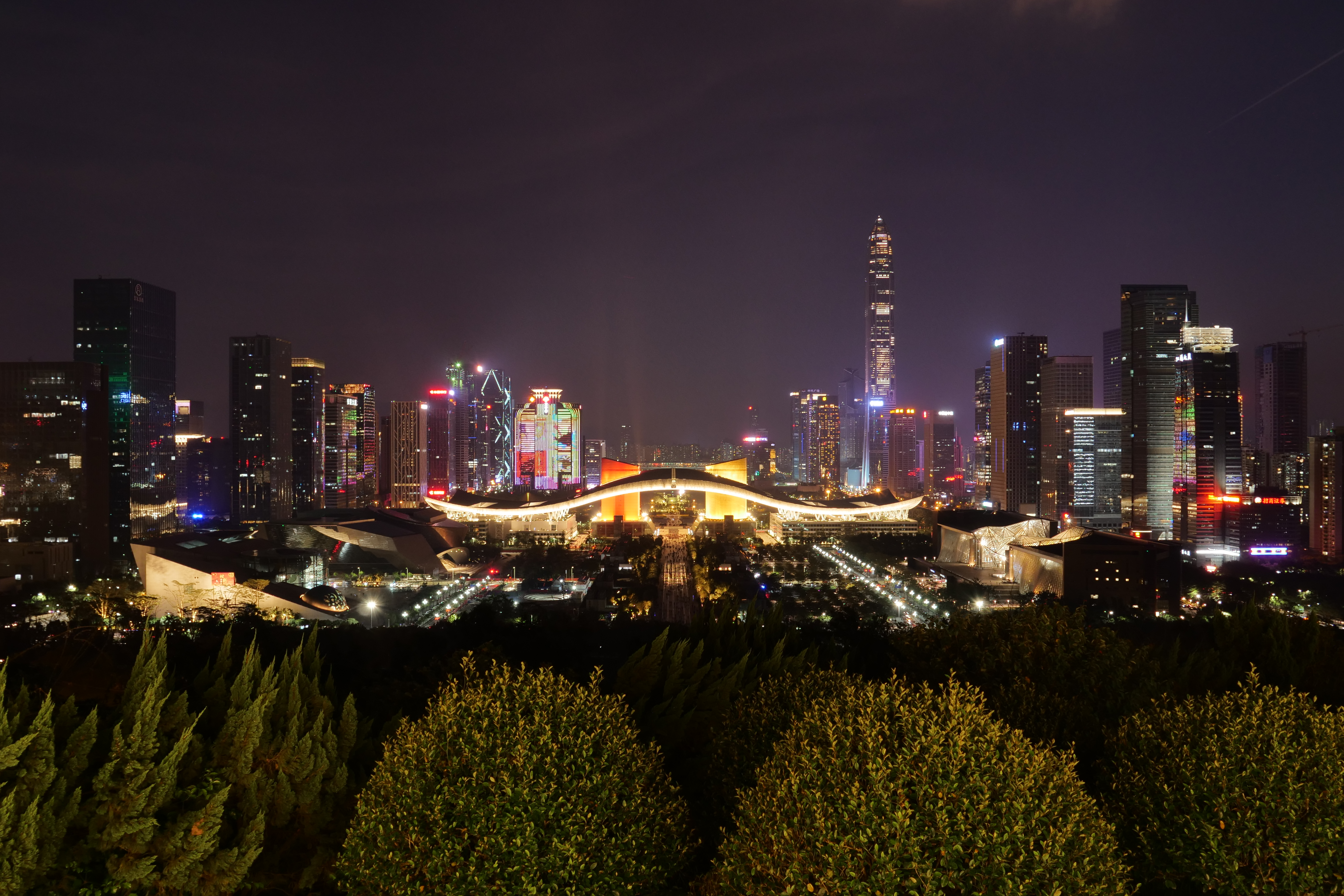 Civic Center, Shenzhen Lianhuashan Park (2018.9) Night